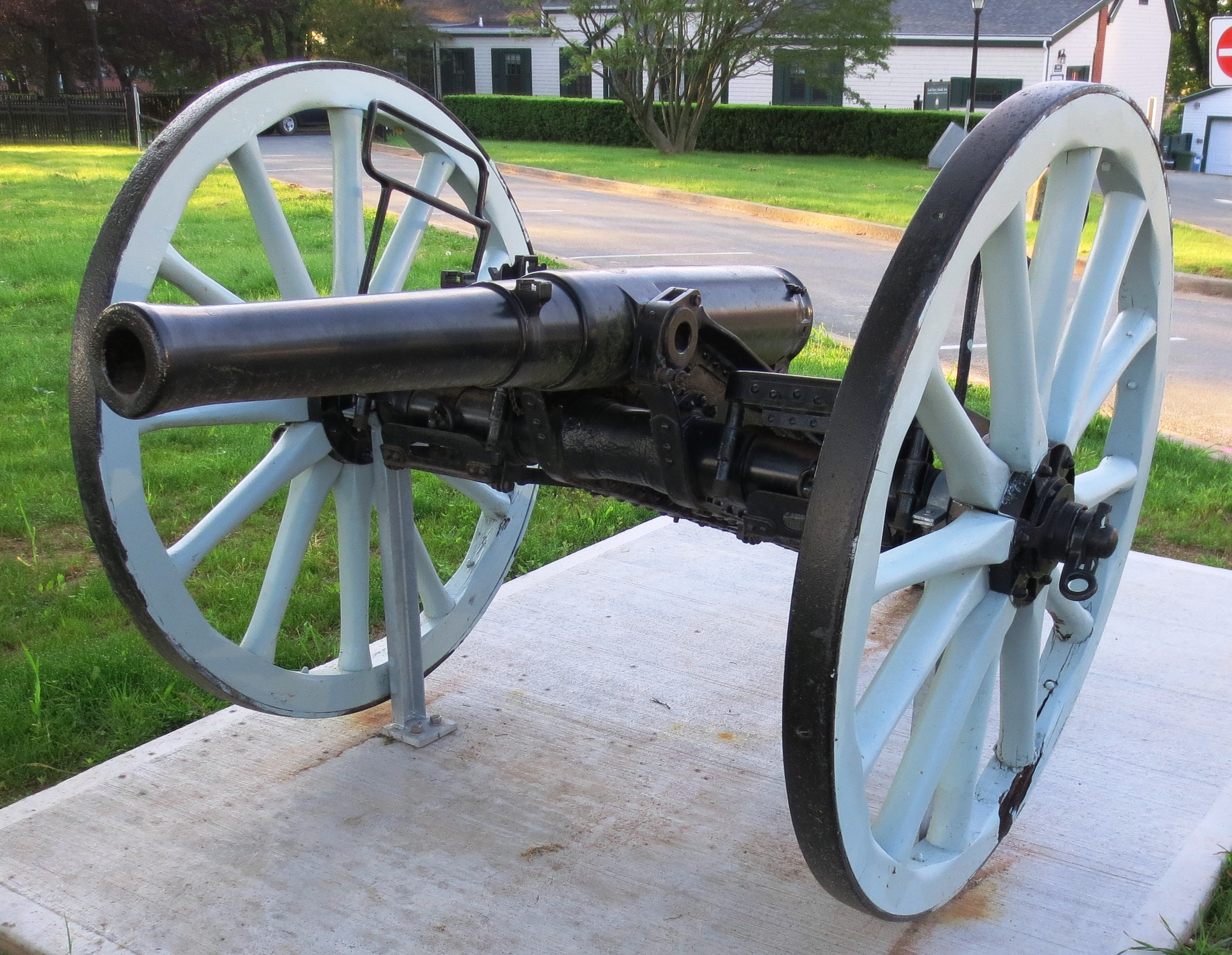 Ordnance BL 12-pounder 6-cwt Gun, Royal Artillery Park, Halifax, Nova Scotia. The British Breach Loading 12-pounder of 6-cwt was brought into service in Canada in 1897. Using cordite as an explosive charge, this new gun could fire a forged steel shell to a distance of 5,120 metres. At the same time a new dual purpose fuze (air and ground burst) made it possible to explode a shell at a predetermined time or on ground impact. During the Boer War, Canada sent three batteries to South Africa, each equipped with six of these new guns.